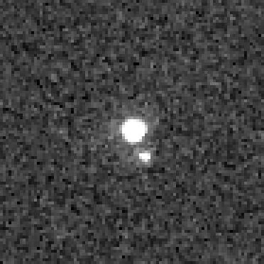 Hubble Space Telescope image of the plutino 90482 Orcus and its satellite Vanth, taken on 3 November 2006.